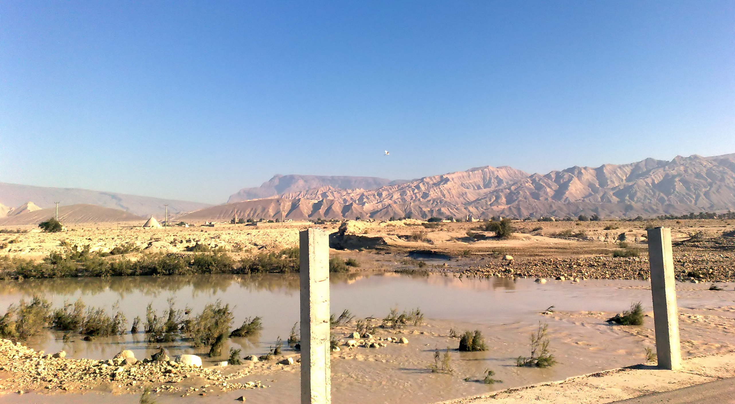 Mehran River in Lamerd County, Fars Province, Iran